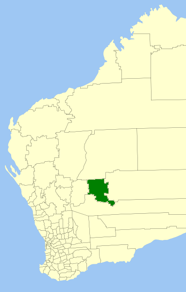 Location of the Local Government Area in Western Australia